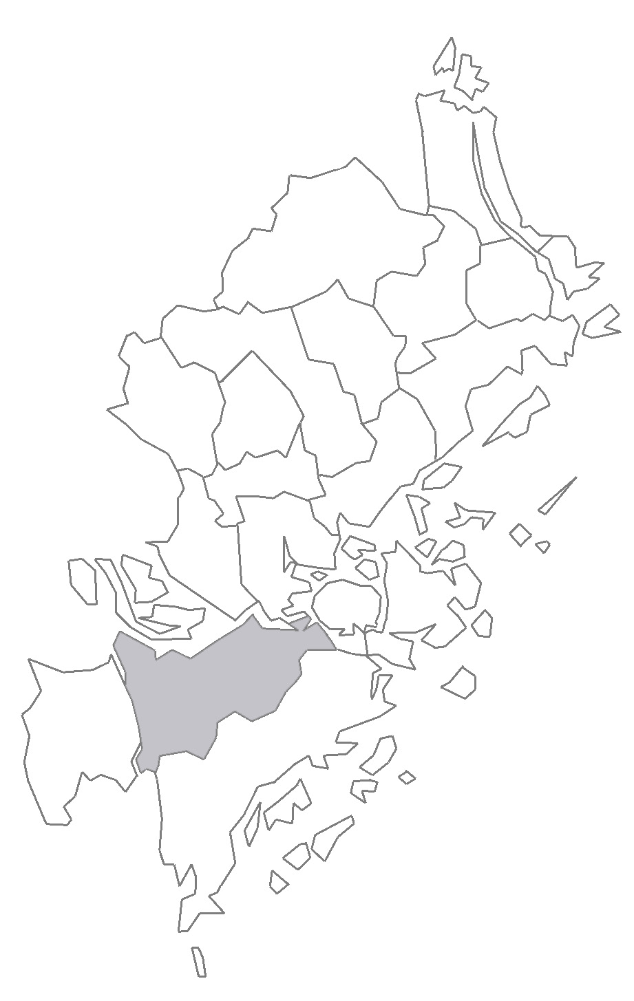 Map describing the location of Svartlösa Hundred in Stockholm County, Sweden.